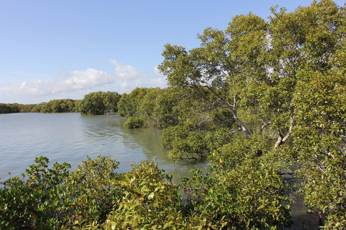 Mangroves located immediately south of Toondah Harbour, Cleveland, Queensland. Photographed 16 February 2014.